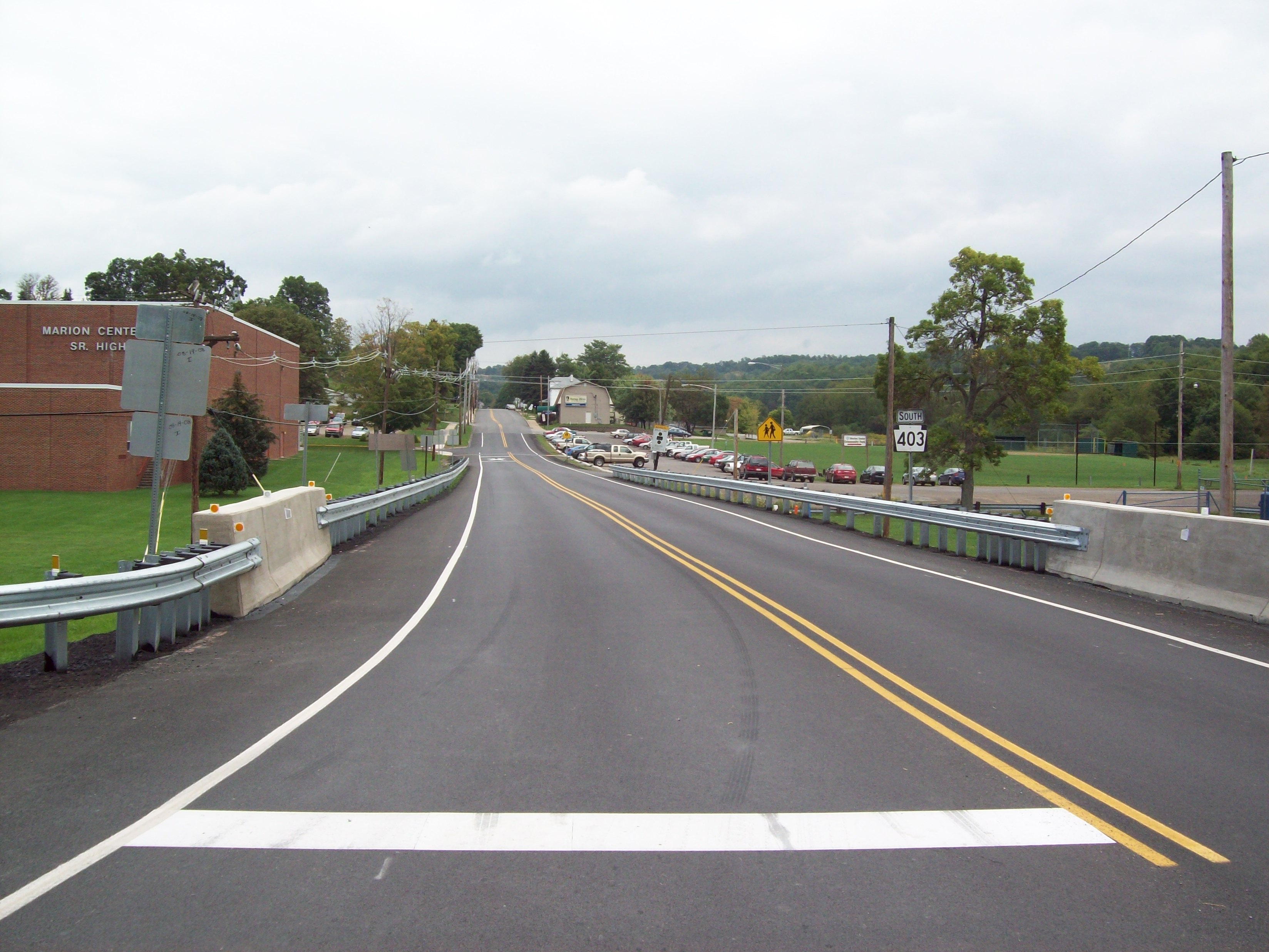 Photograph of Marion Center, Pennsylvania, as seen from the intersection of Main Street and Rt. 119. The local high school can be seen at far left.